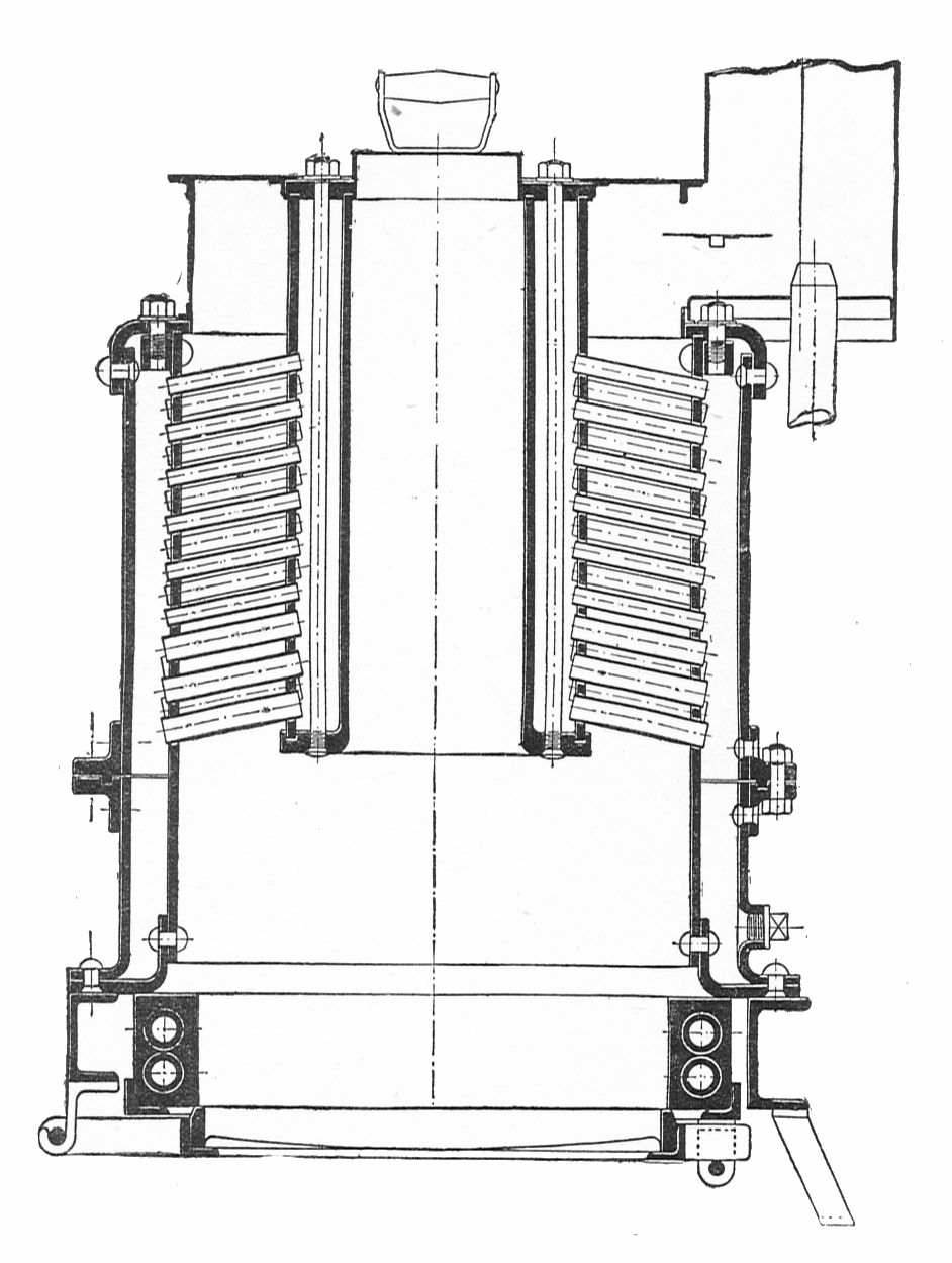 Straker boiler, section (Rankin Kennedy, Modern Engines, Vol III).jpgFig. 219 Sectional Elevation of Straker Boiler